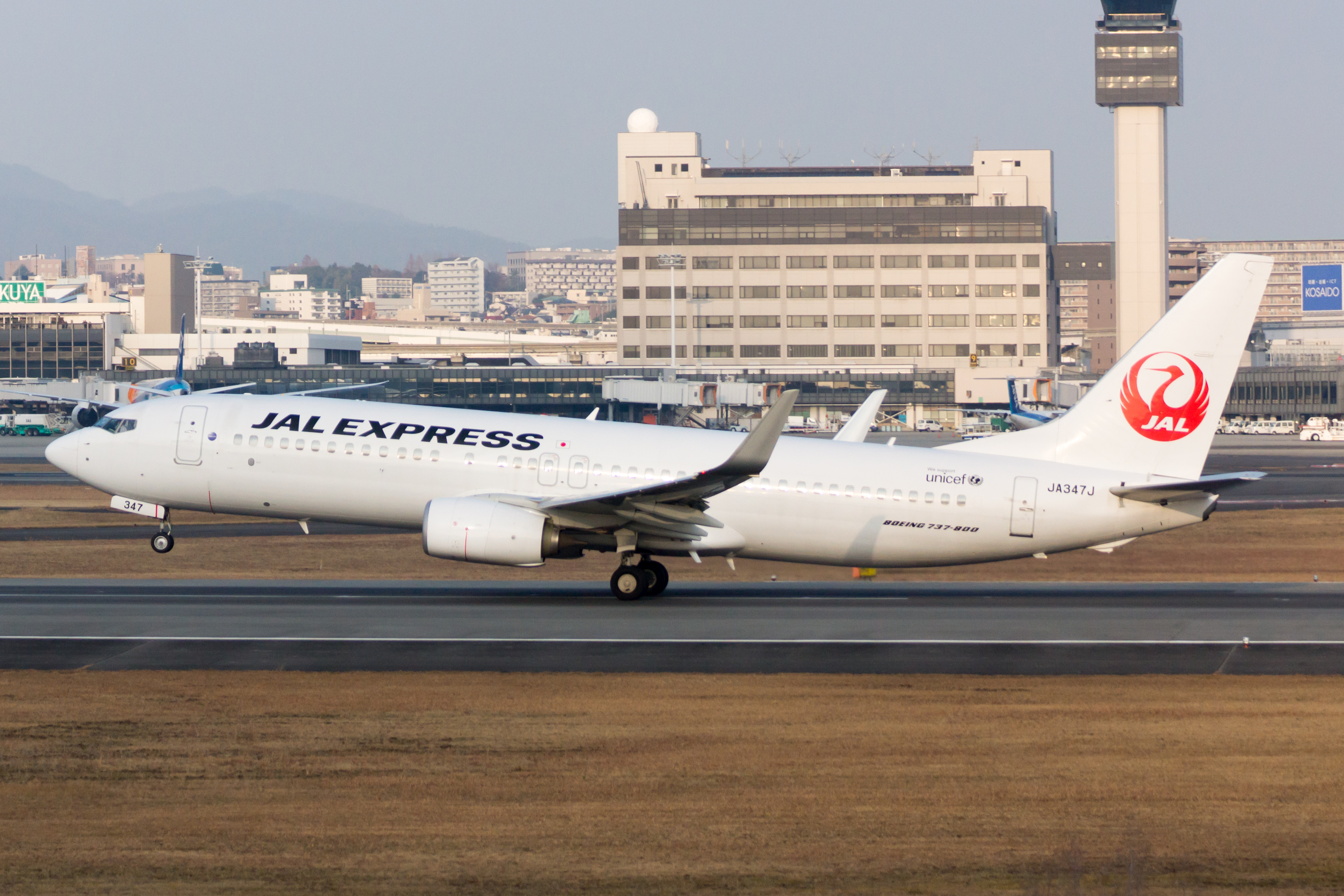 Japan Air Lines / 日本航空 Boeing 737-846 JA347J JL2009, Departed to Sapporo Osaka Itami Int'l Airport